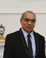 Fisa Igilisi Pihigia, former Niuean MP and High Commissioner from Niue to New Zealand, at Government House, Wellington, NZ, on 20 April 2017